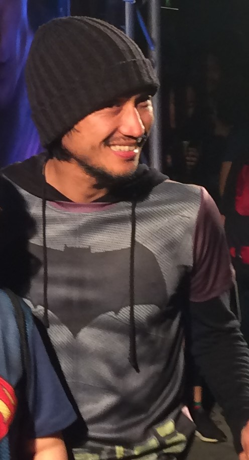 Toon Bodyslam at Batman V Superman Dawn of Justice Midnight Run Bangkok.